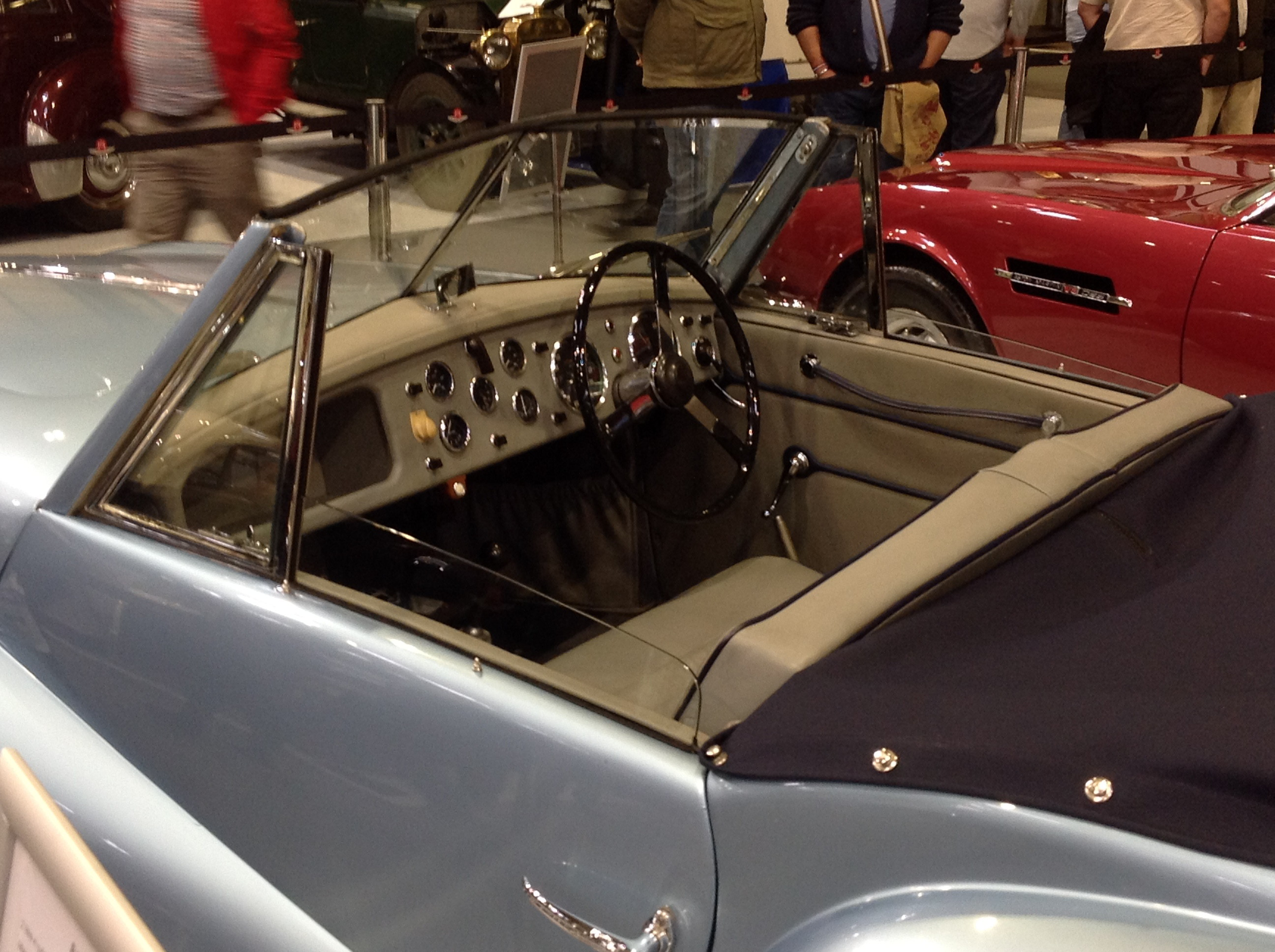 Aston Martin DB1 The Lancaster Insurance Classic Car Show, NEC Birmingham, Friday 8th November 2019.